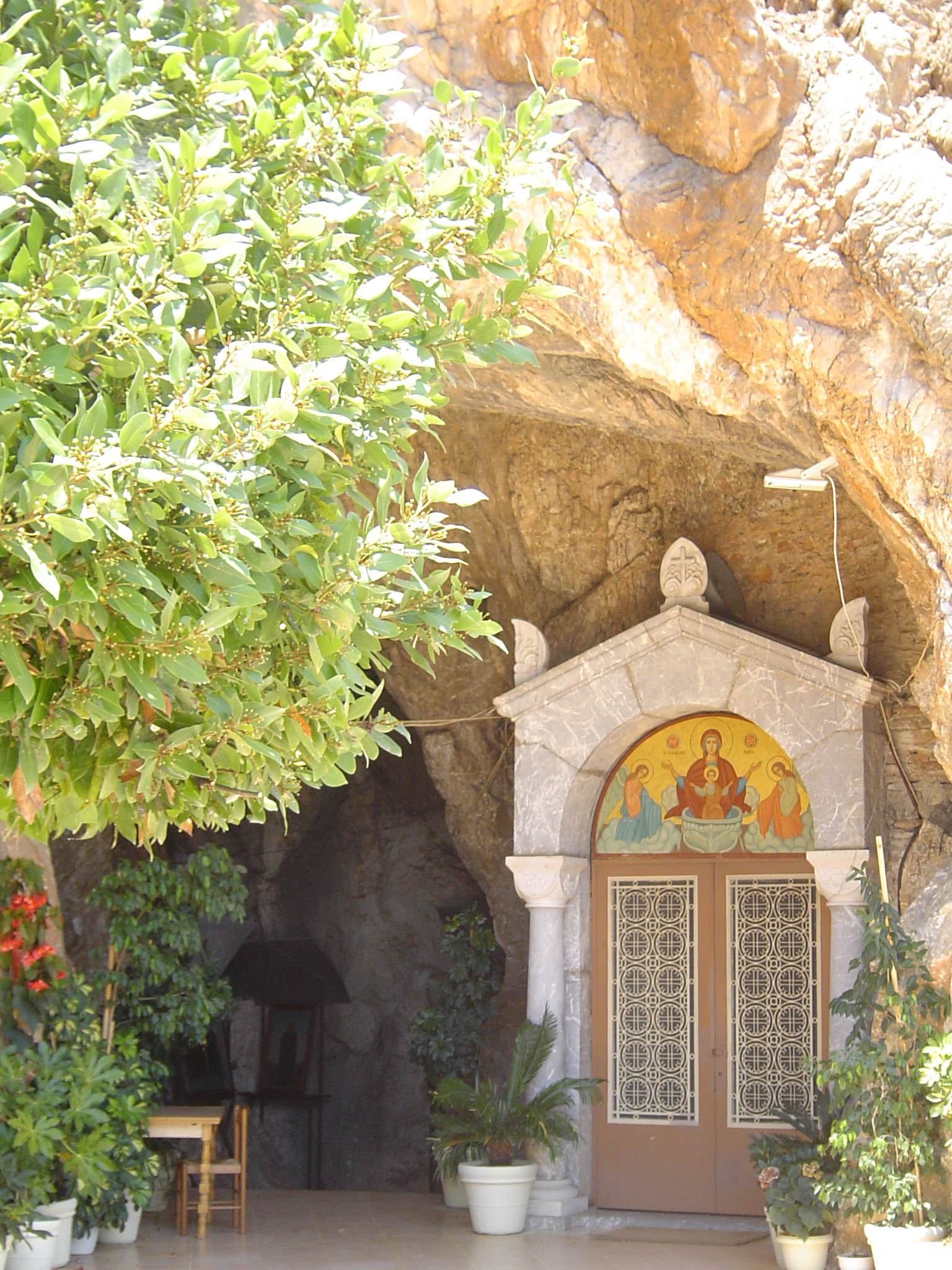 Entrance of Cavern in Kefalari, Argos, Greece